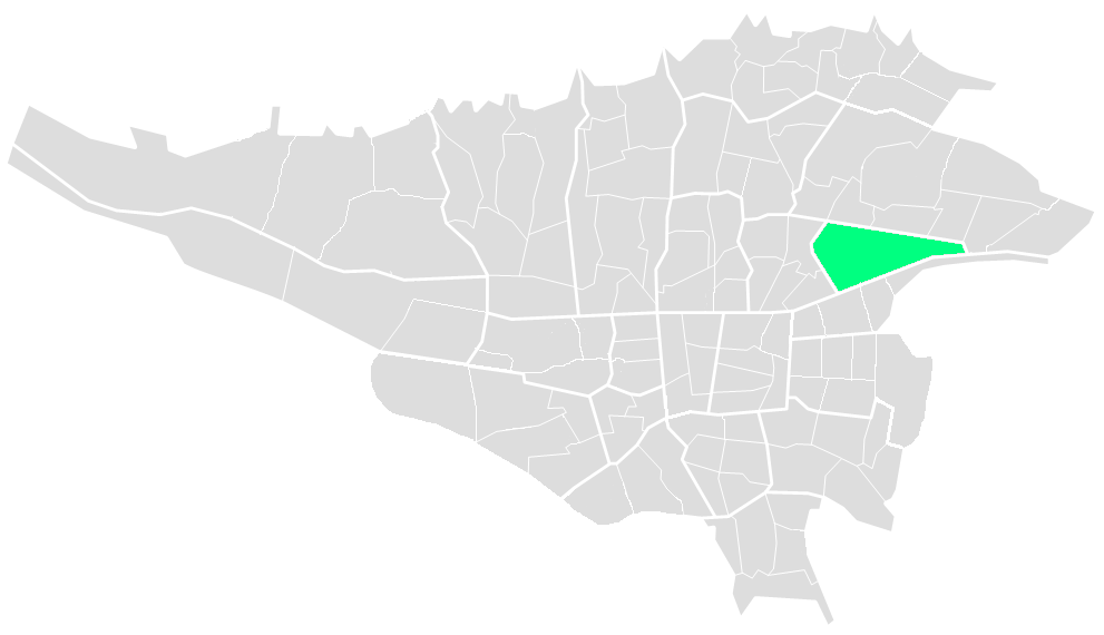 Region 8 of Tehran